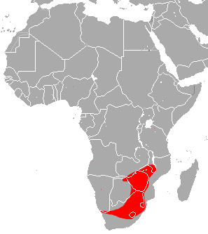 Darling's Horseshoe Bat (Rhinolophus darlingi) range